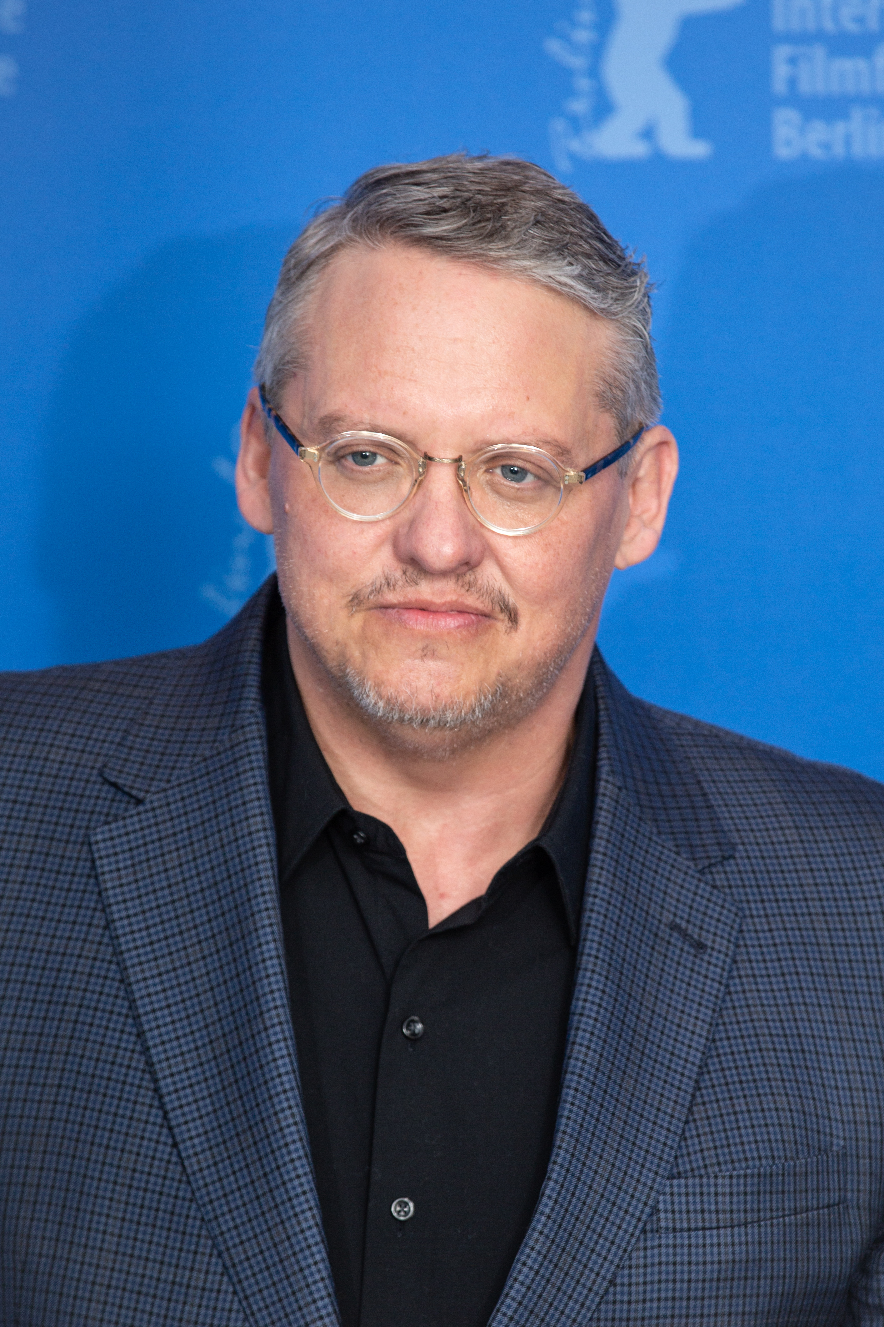 Film director Adam McKay at the Berlinale 2019